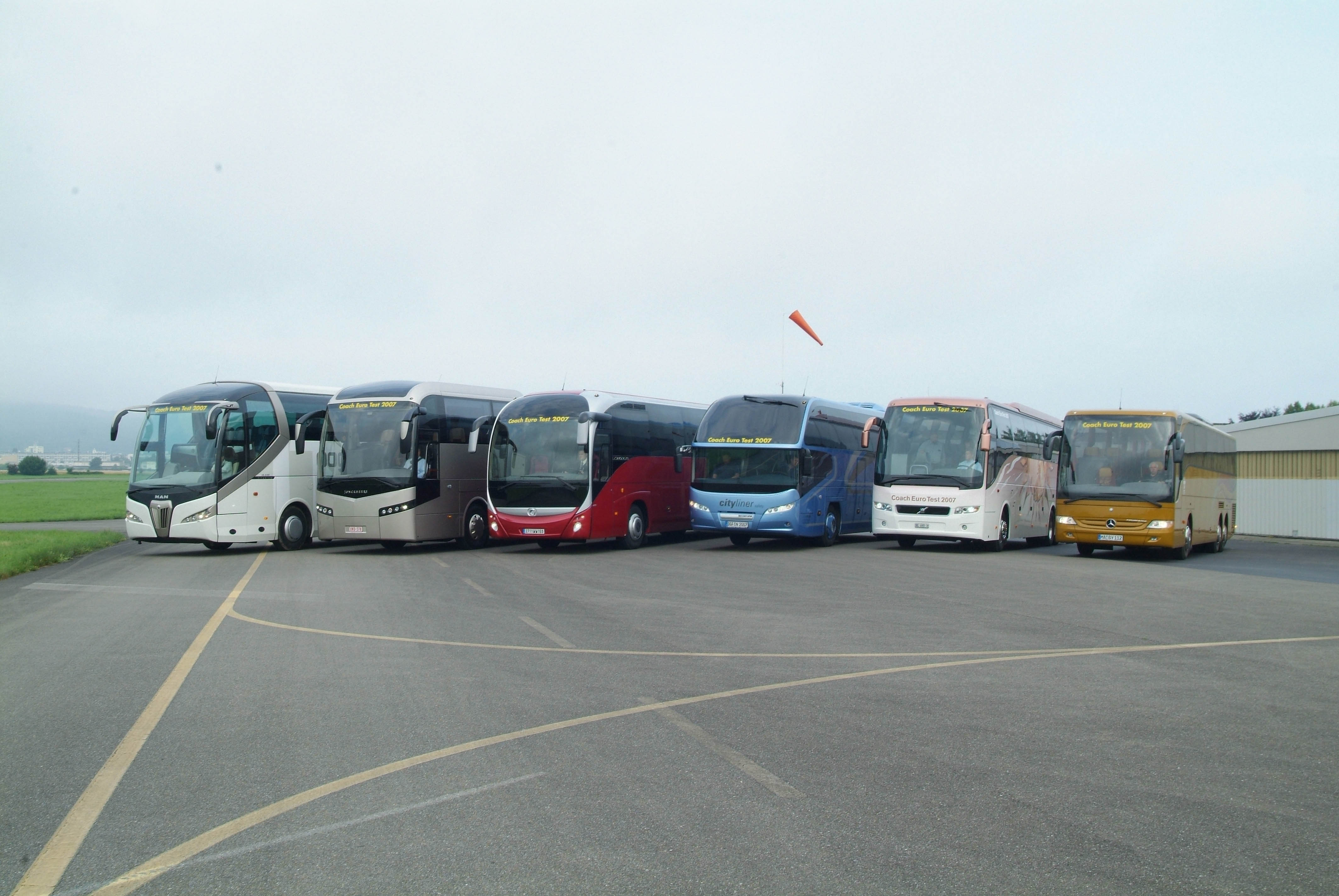 Coach Euro Test 2007 (for title Coach of the Year 2008) in Zürich, Switzerland. From right to left: Mercedes-Benz Tourismo M, Volvo 9700 (Coach of the Year 2008), Neoplan Cityliner HD, Irisbus Magelys HD, VDL Jonckheere JSD 140-460, Noge Titanium (MAN chassis) buses.